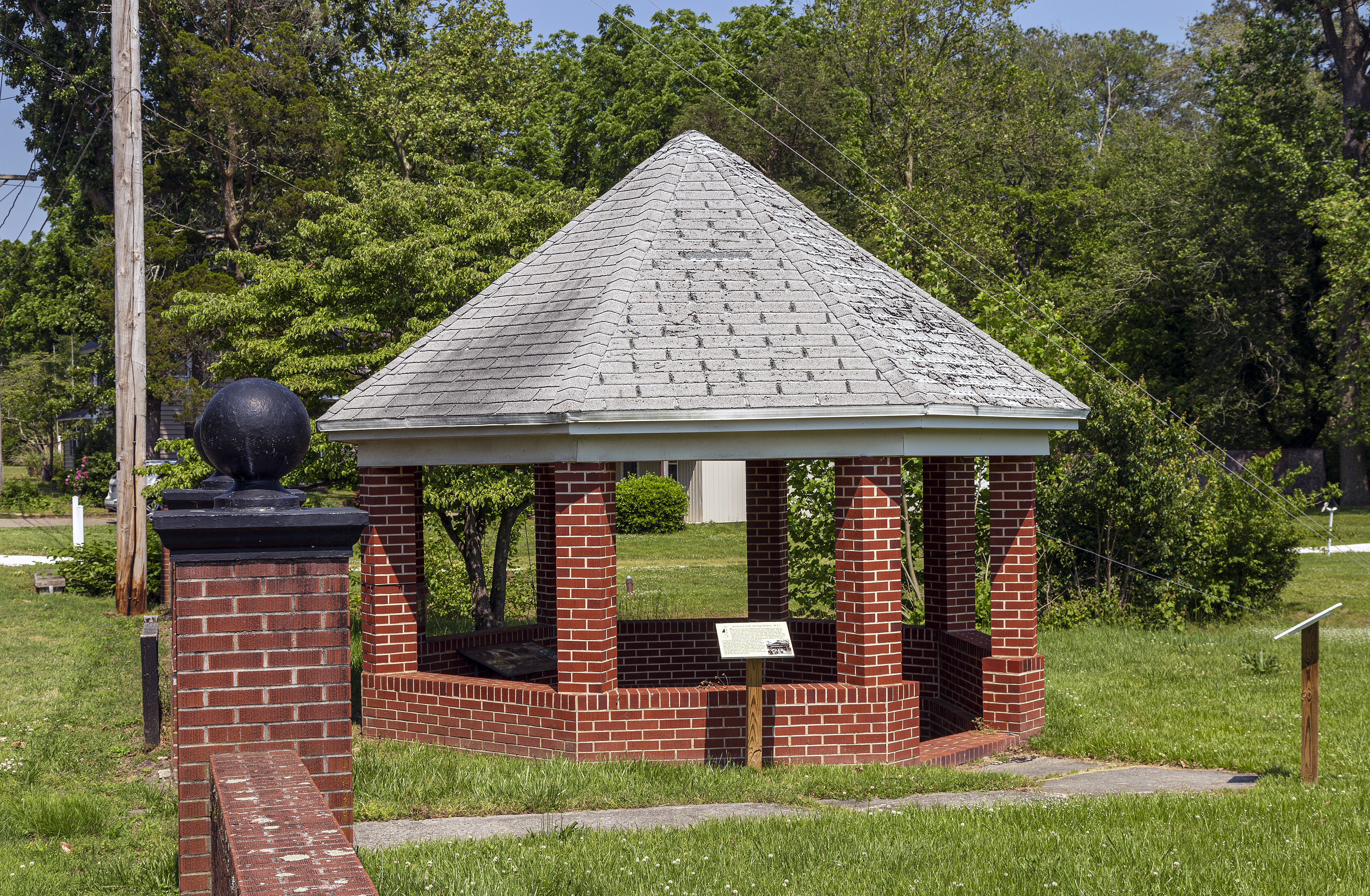 The Barren Creek Springs springhouse, Mardela Springs, Maryland, USA